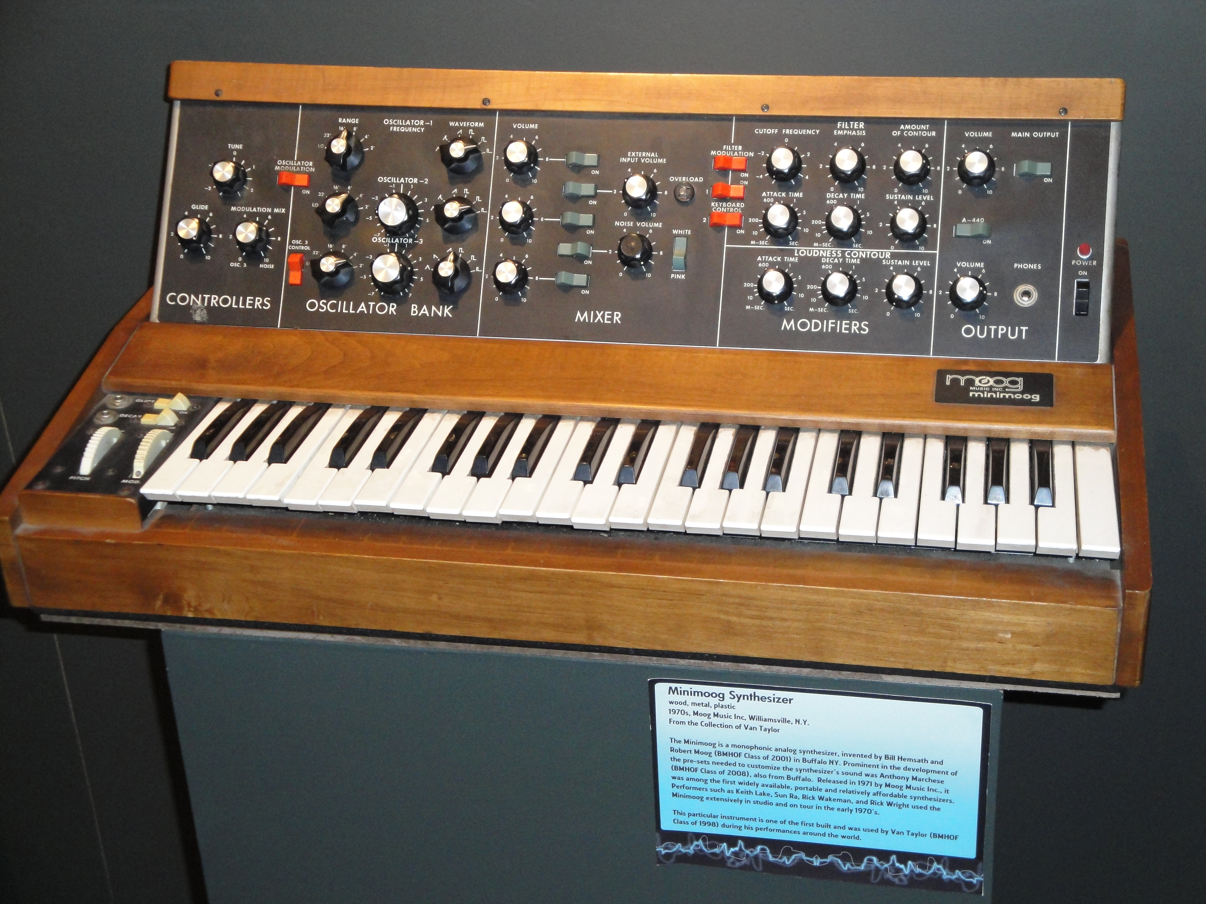 Moog Music Inc, Williamsville, NY/USA, 1970s From the Collection of Van Taylor Who's Keith Lake?